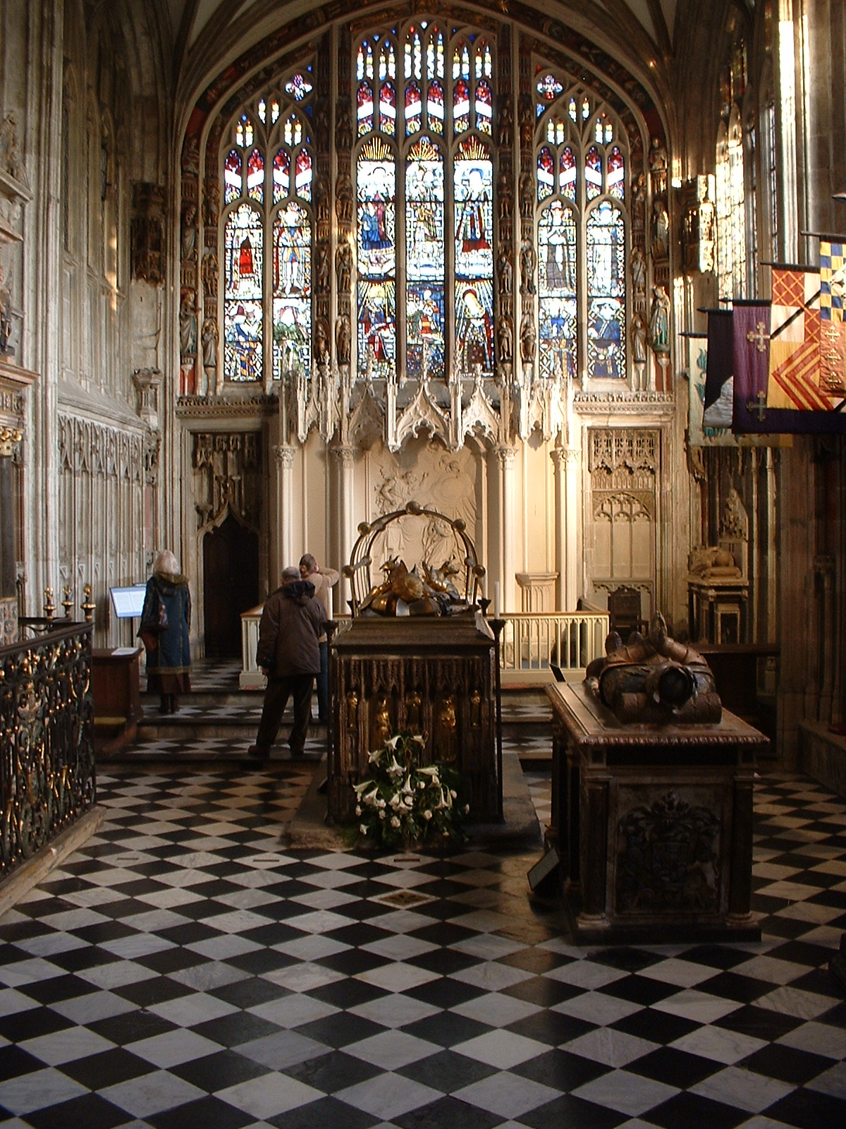 The Beauchamp Chapel, Collegiate Church of St Mary, Warwick, England. Taken by Necrothesp, 14 January 2006.